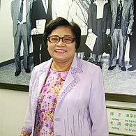 Hsu, Jung-Shu